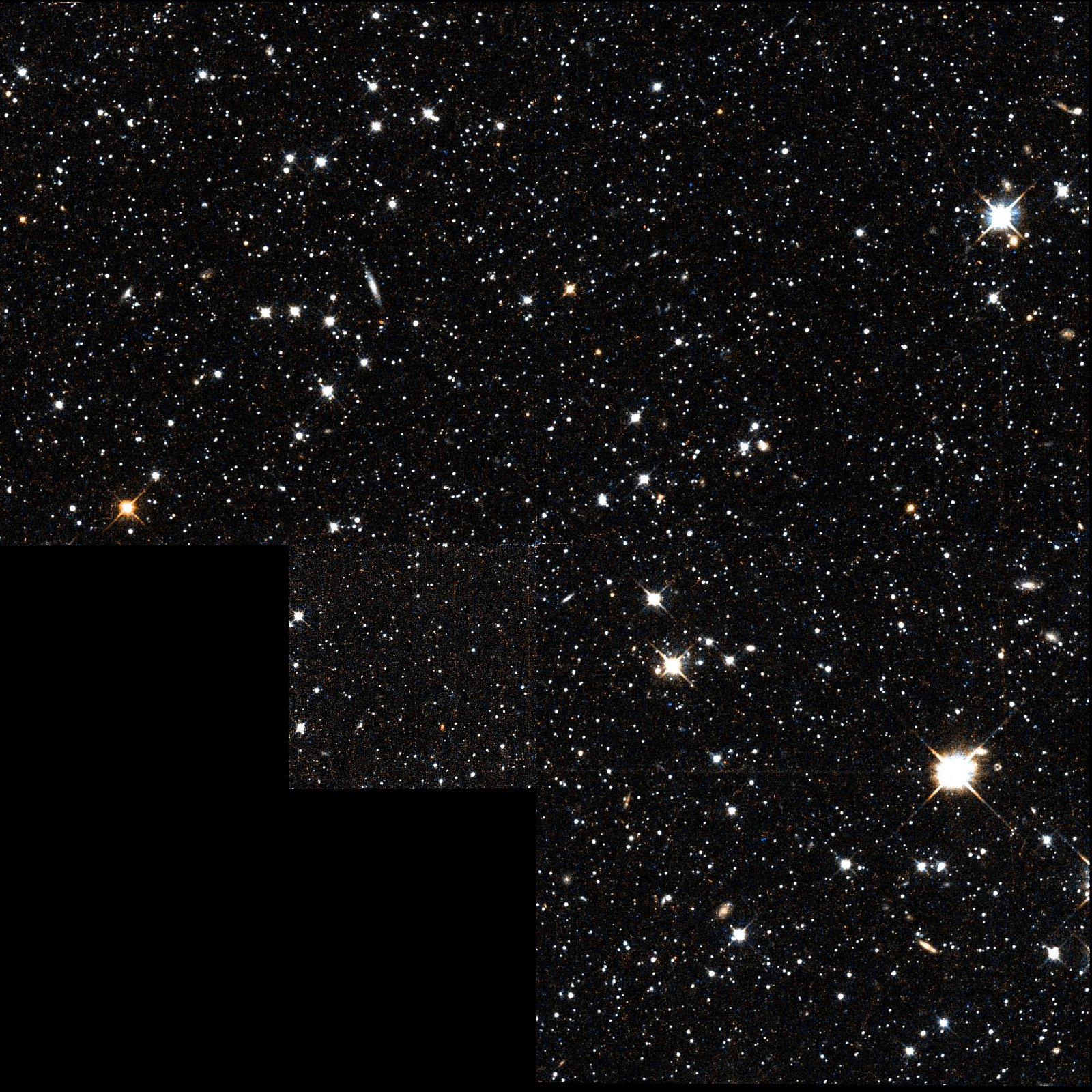 PGC 60095 (Draco Dwarf) galaxy (central part, 2.5′ × 2.5′ field) by Hubble space telescope